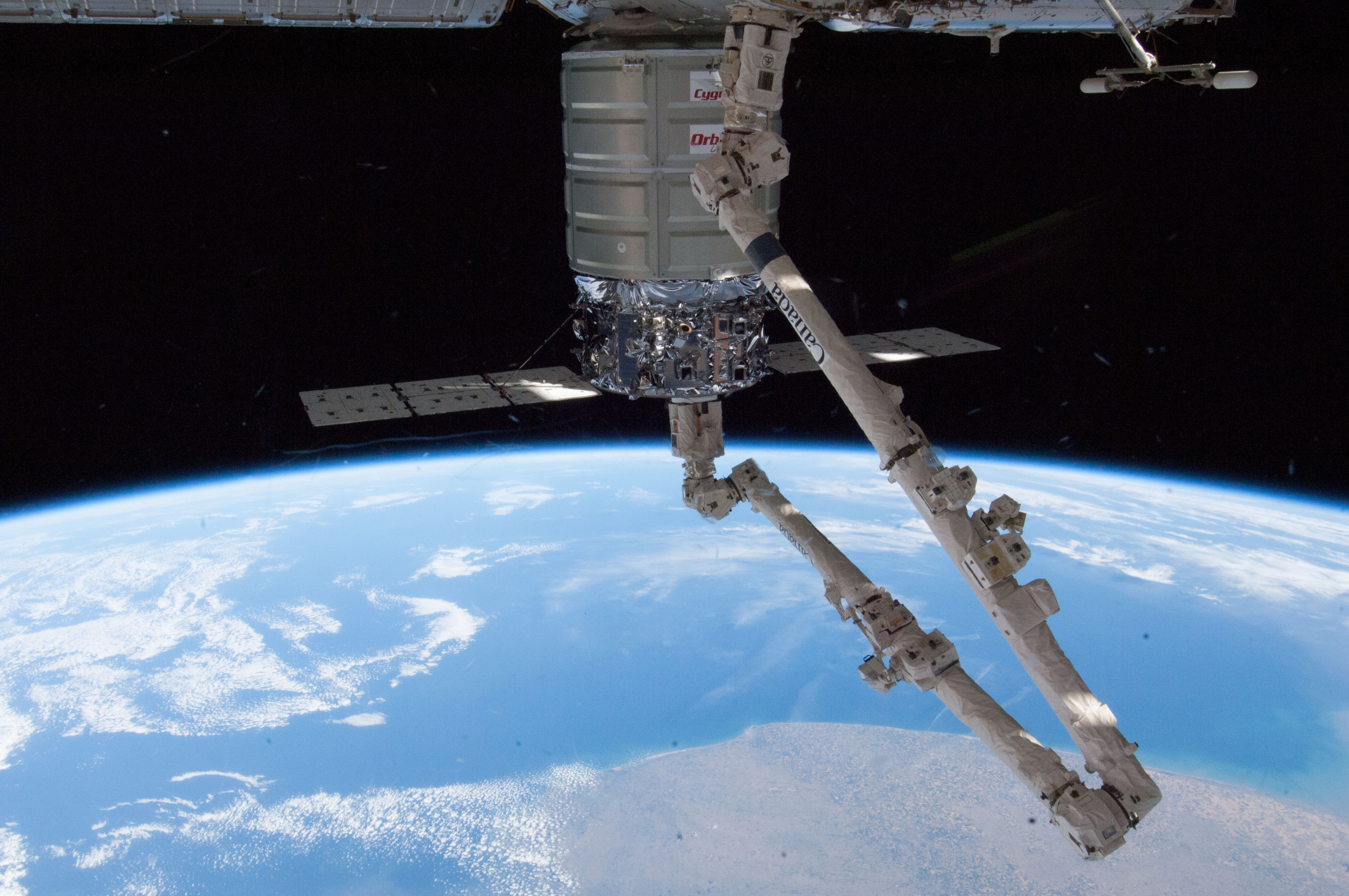 The Canadarm2 berths the Orbital Sciences Corp. Cygnus commercial cargo craft to the Harmony node of the International Space Station on Jan. 12, 2014. Earth's horizon and the blackness of space provide the backdrop for the scene.